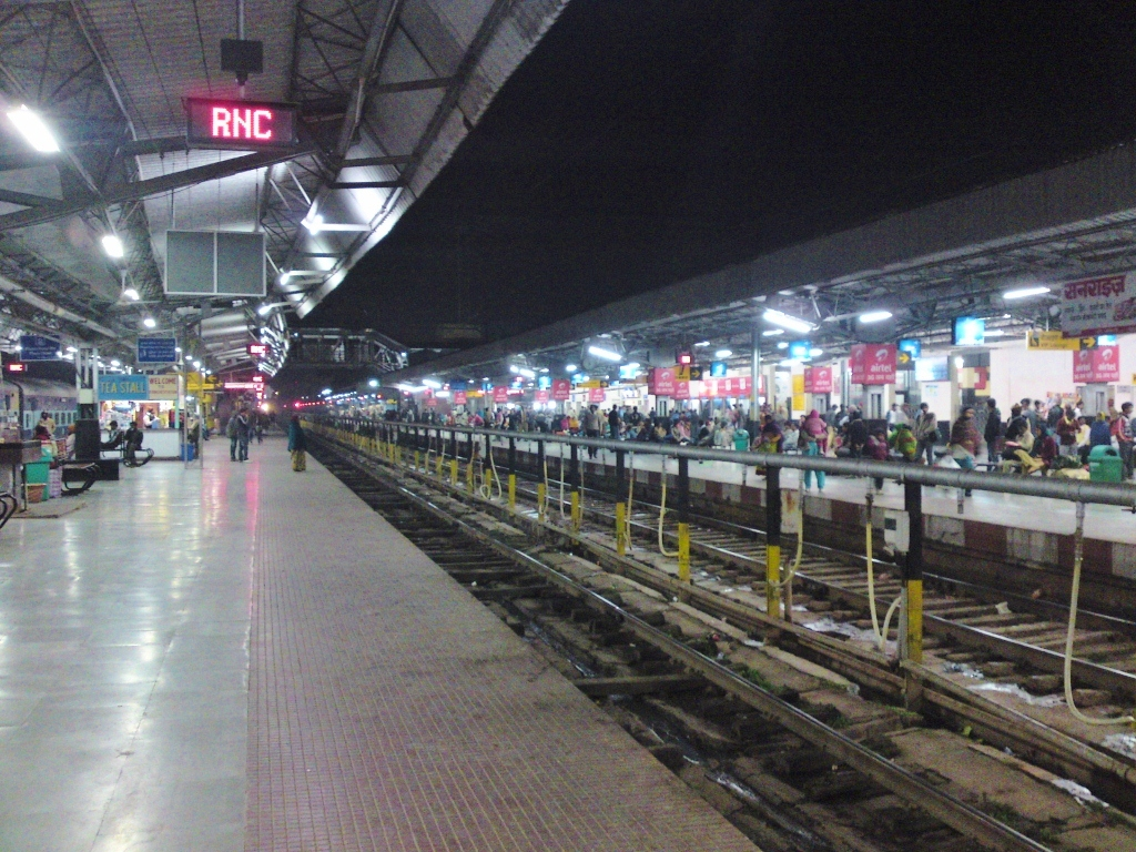 Photo taken at night at Ranchi Junction Railway Station.